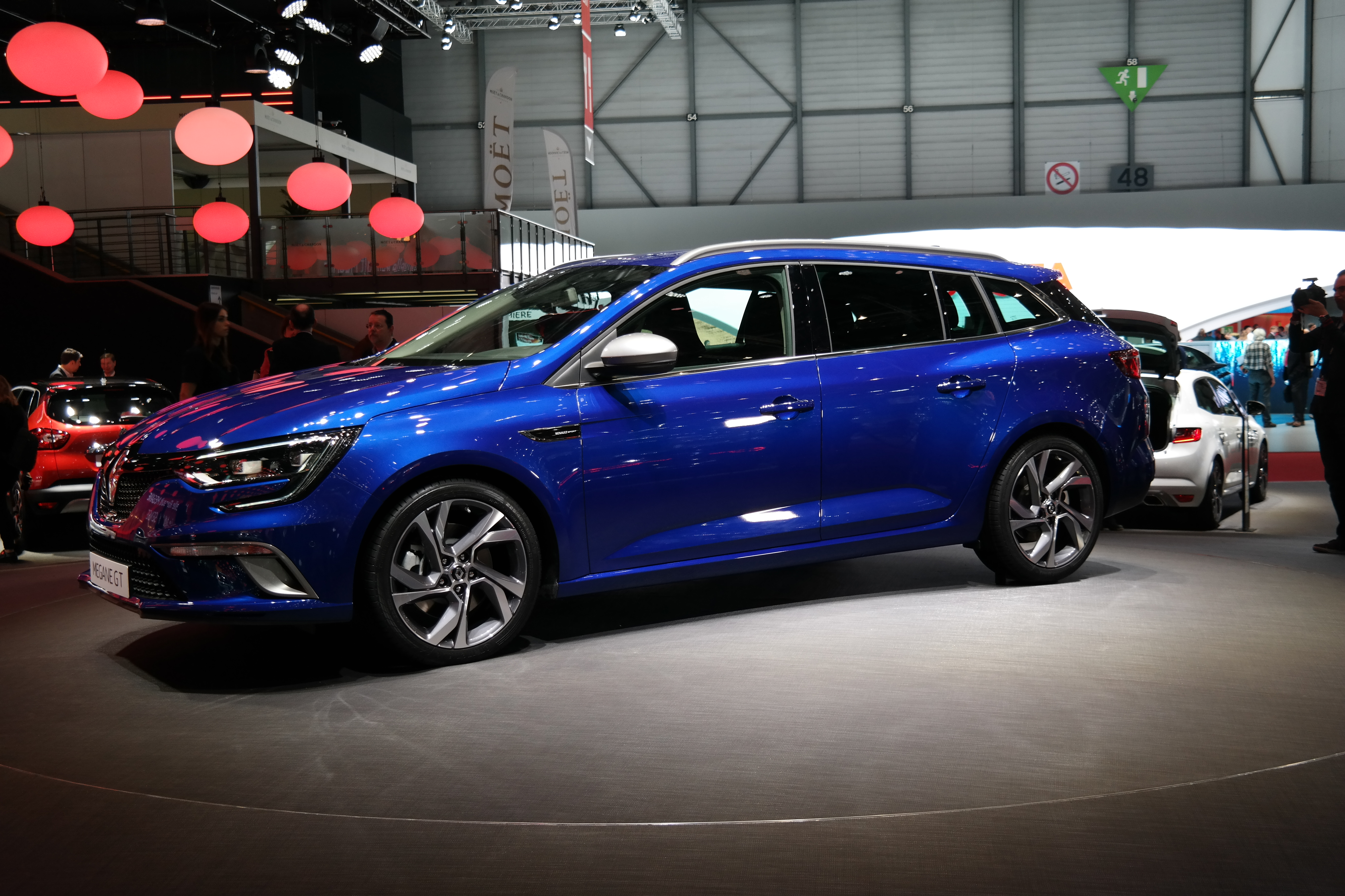 Geneva Motor Show 2016 (photo taken on the first press day)